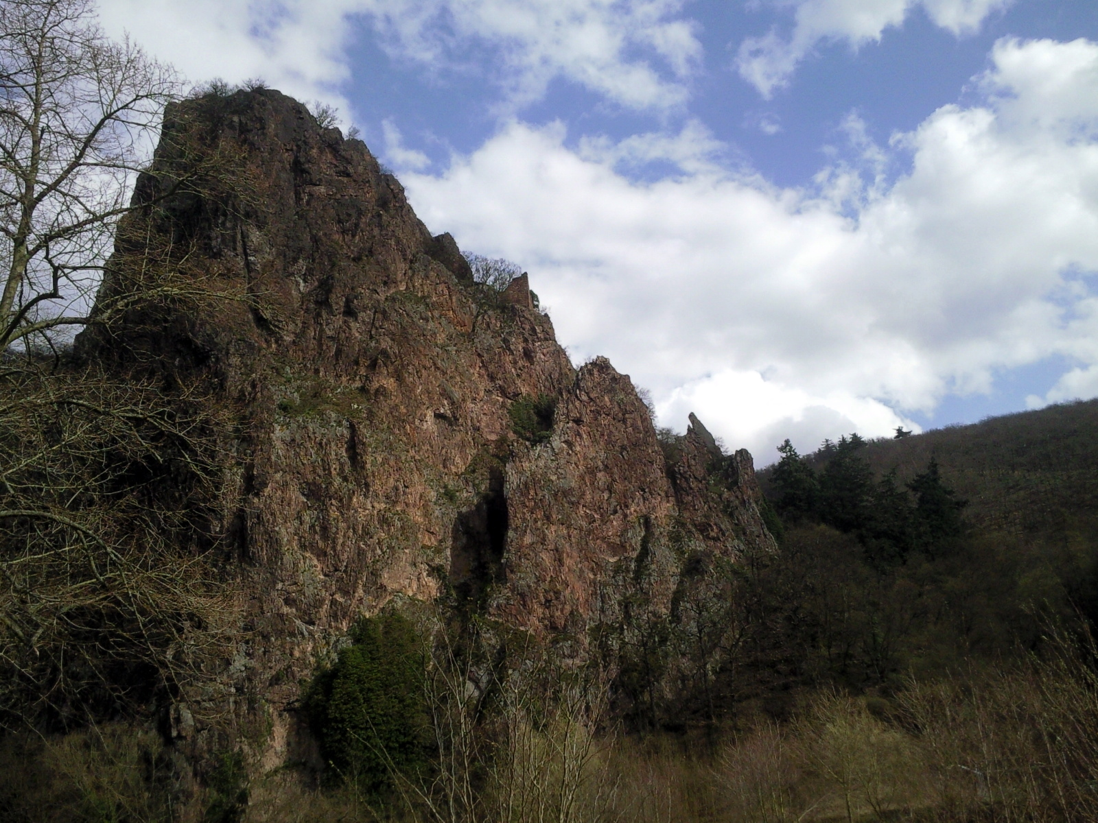 The Rheingrafenstein (Rhine count stone) near Bad Münster am Stein-Ebernburg, Rhineland-Palatinate, Germany.